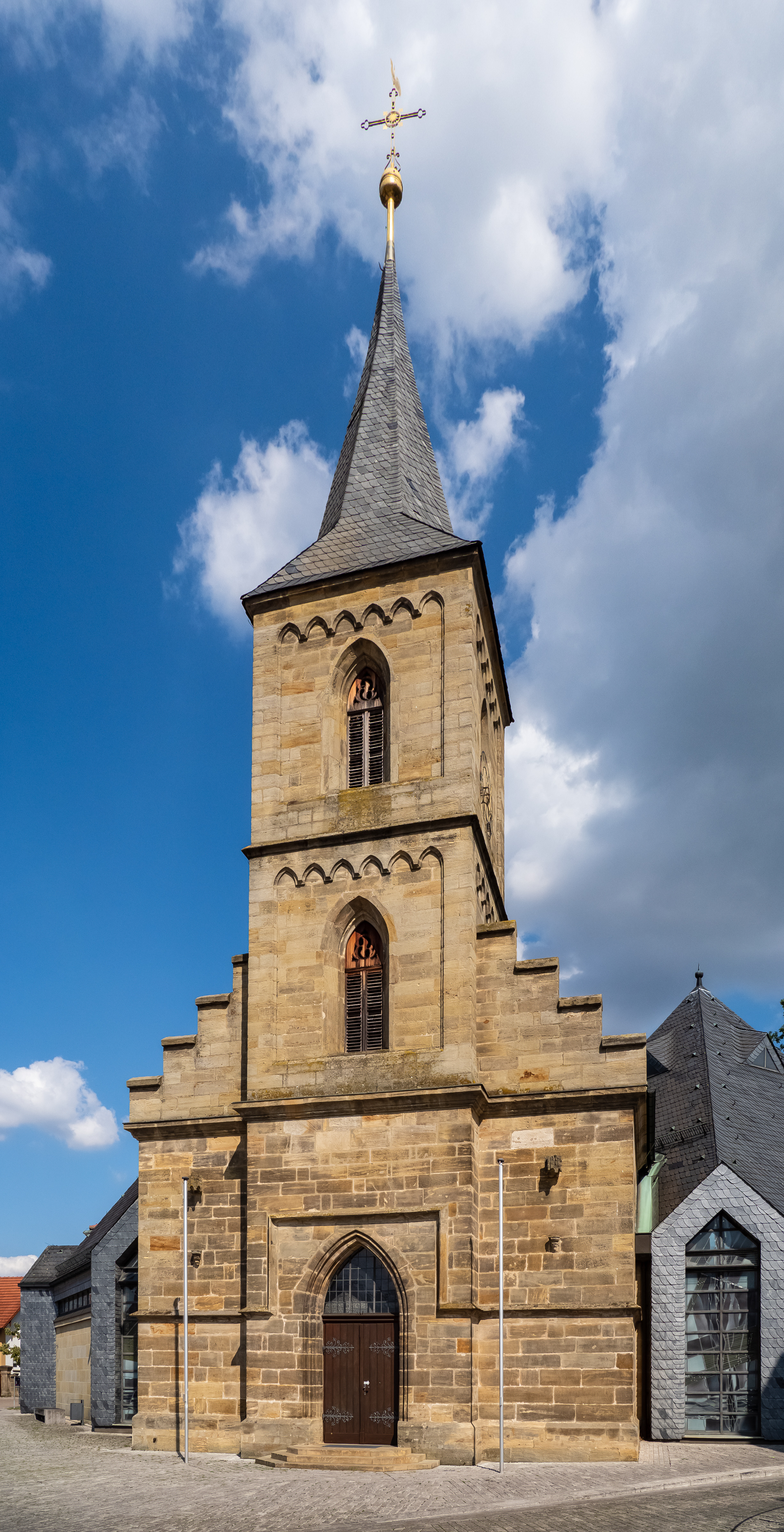 Parish church St. Peter and Paul in Kemmern